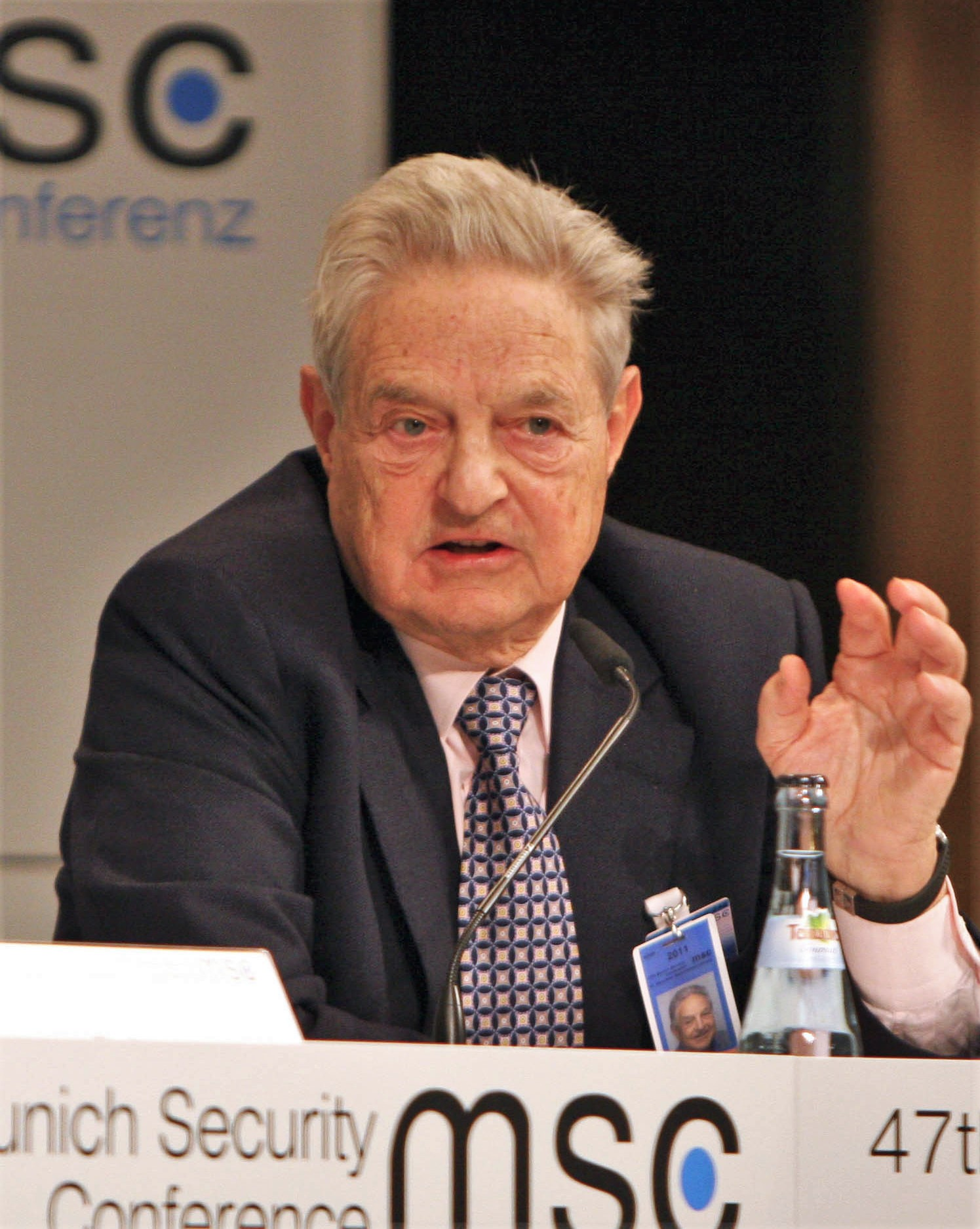 47th Munich Security Conference 2011: George Soros, Chairman of the Soros Fund Management, during the Discussion.